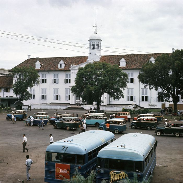 Busses and taxis at Taman Fatahillah